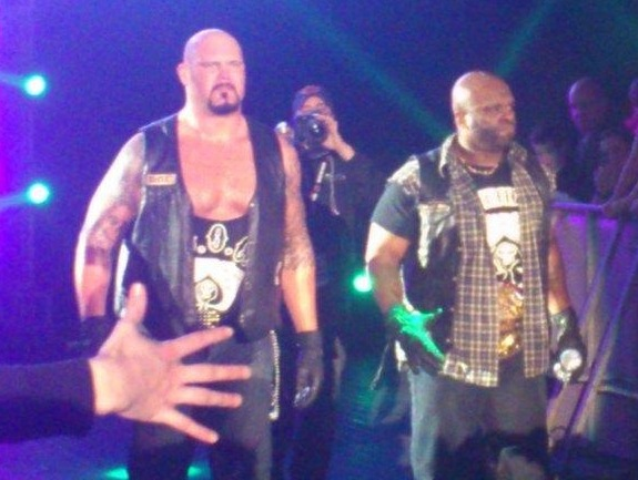 The Aces & Eights Heading For The Steel Cage